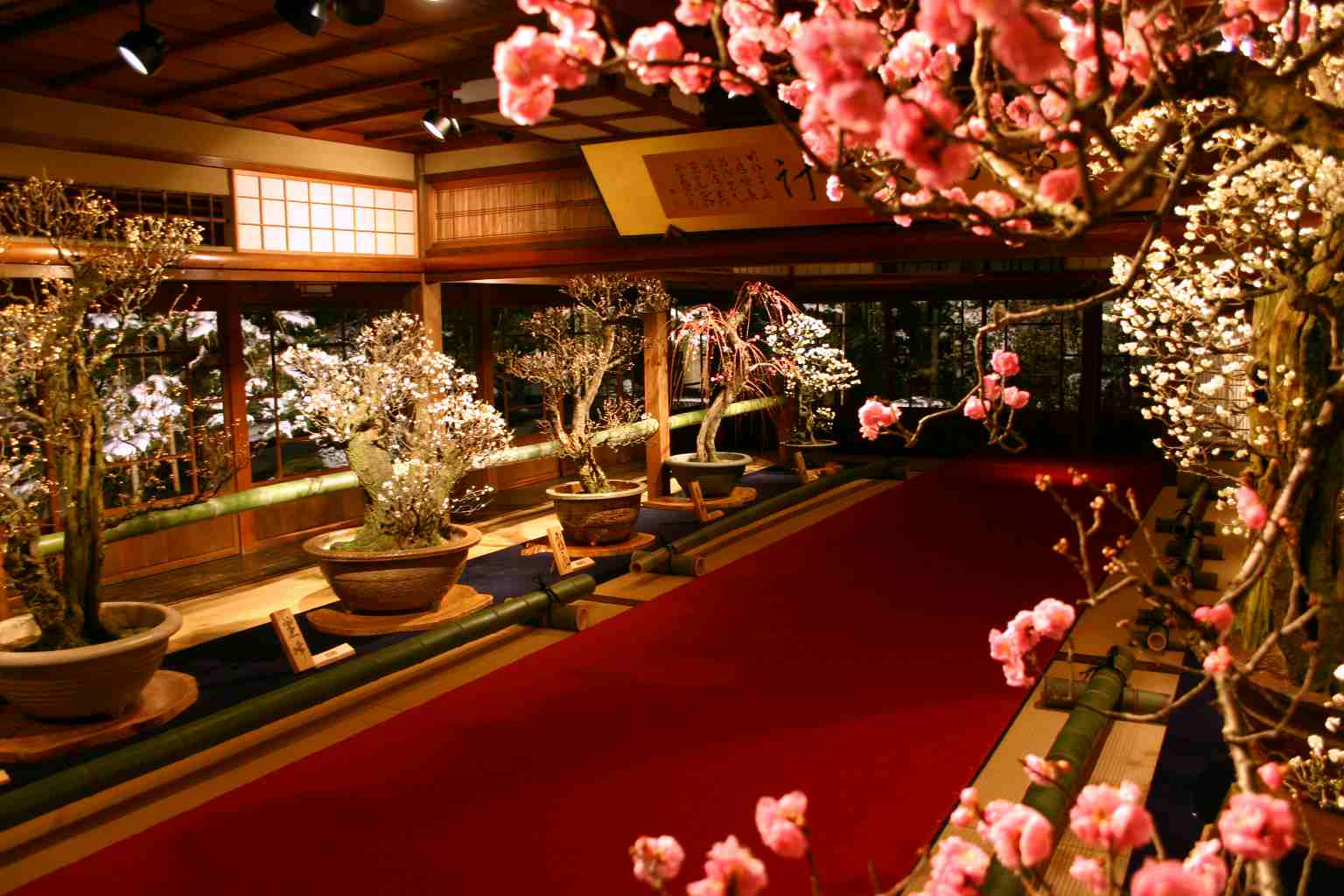 Mei Nagahama : exhibition of bonsais